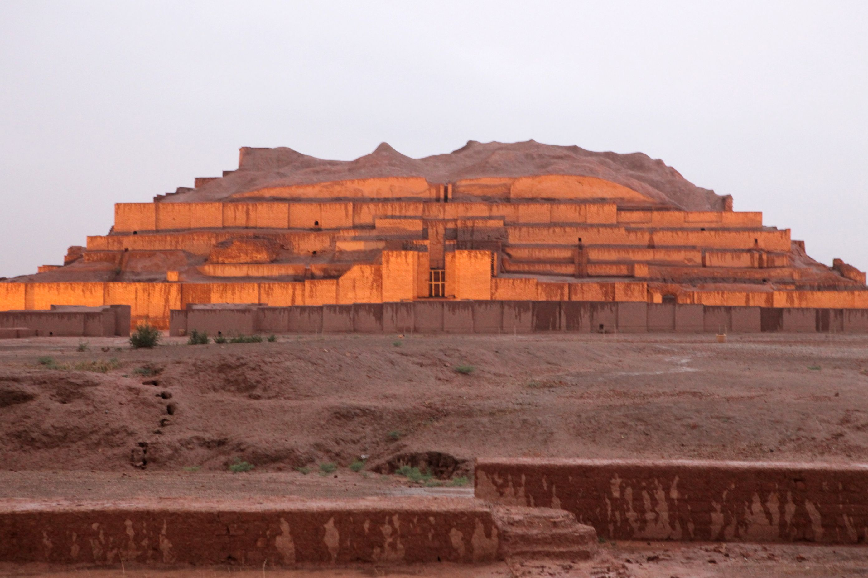 Choqa Zanbil, Ziggurat, Dur Untash, 13th century BC